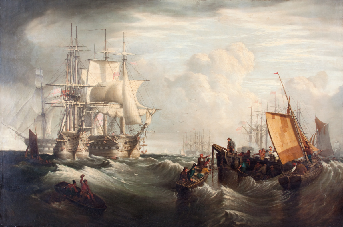 Getting up Anchor at Spithead (1859) by George William Mote